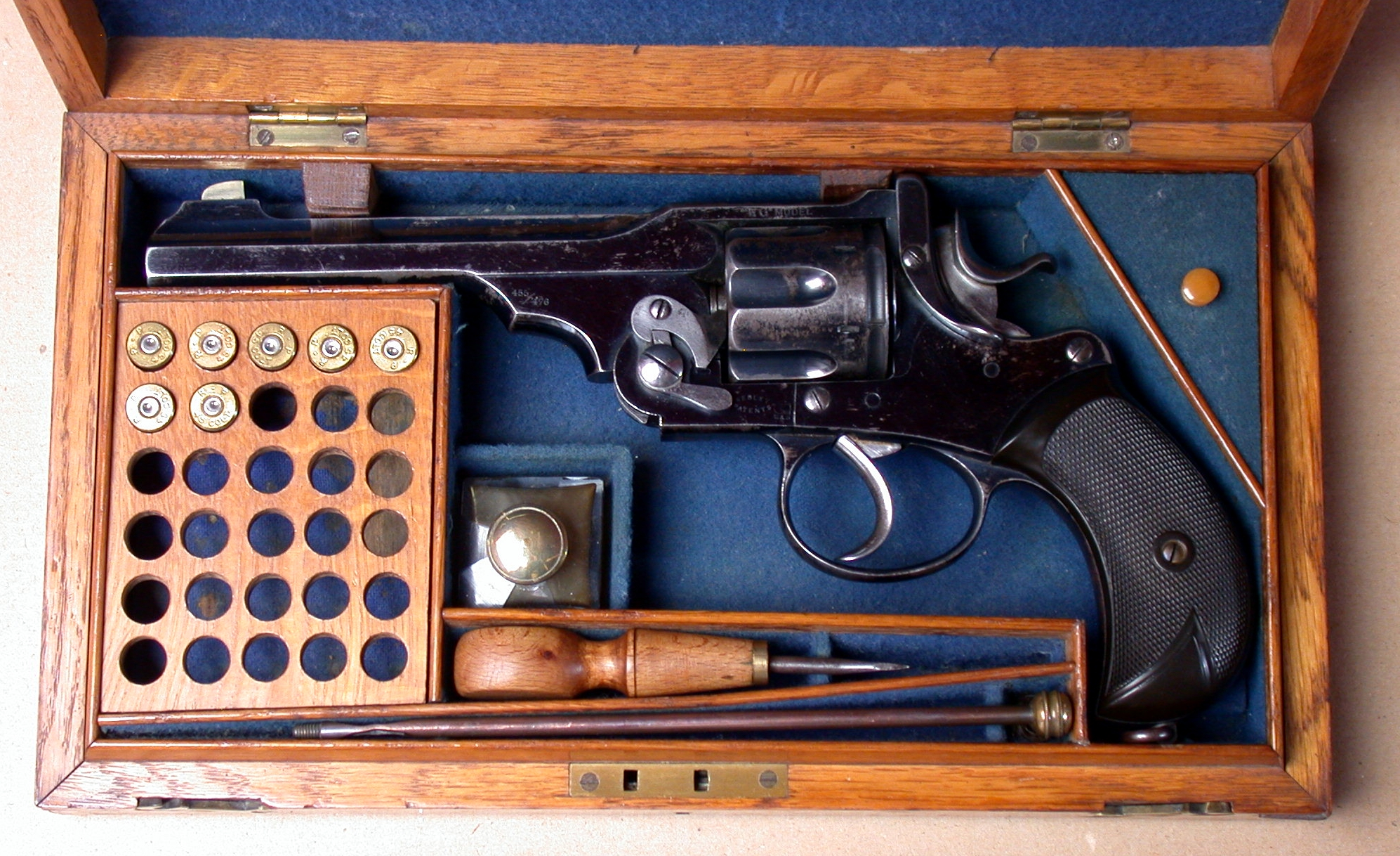 Webley "WG" Model (a.k.a. Webley Green). Caliber 455/476